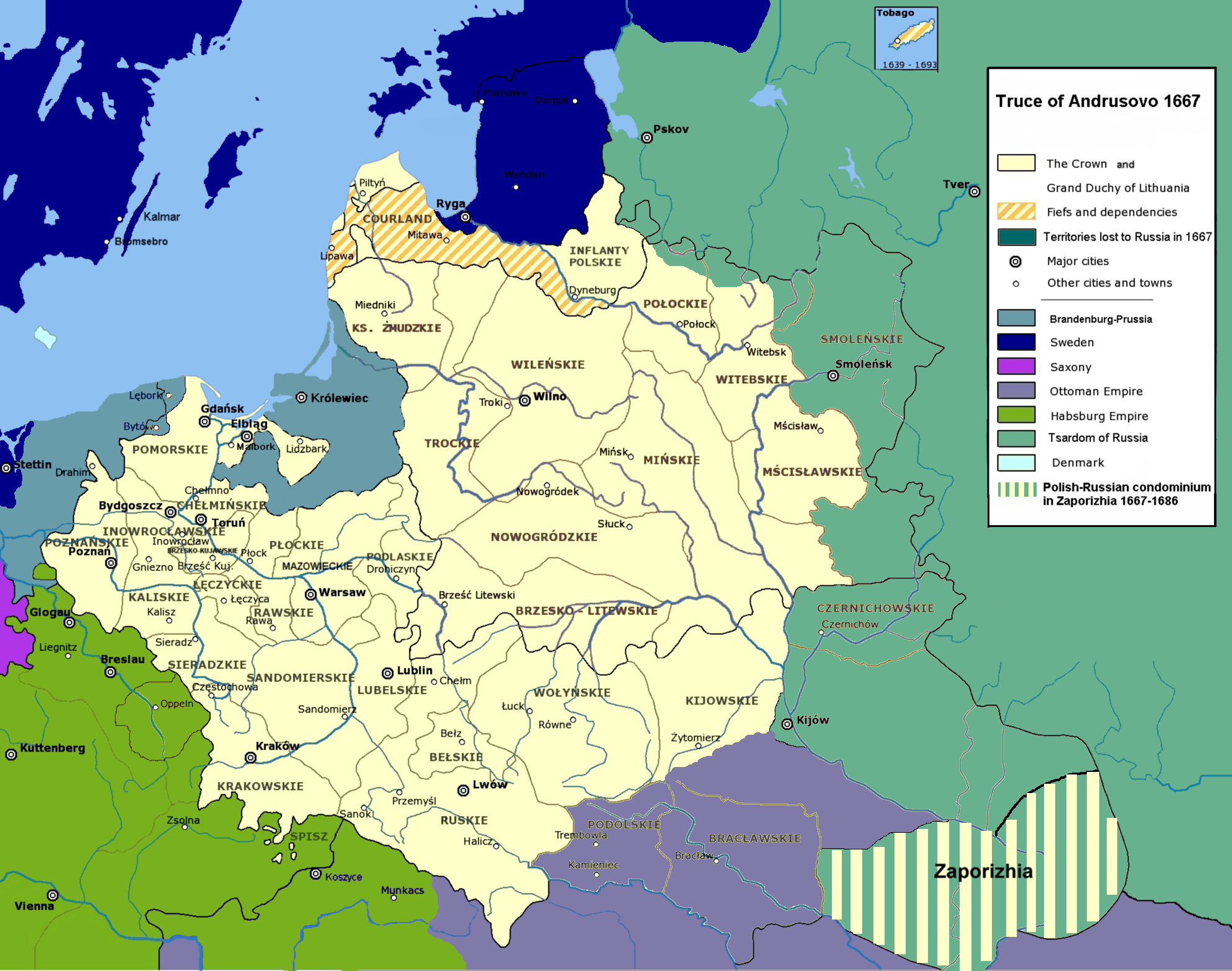 Polish-Lithuanian Commonwealth in 1672